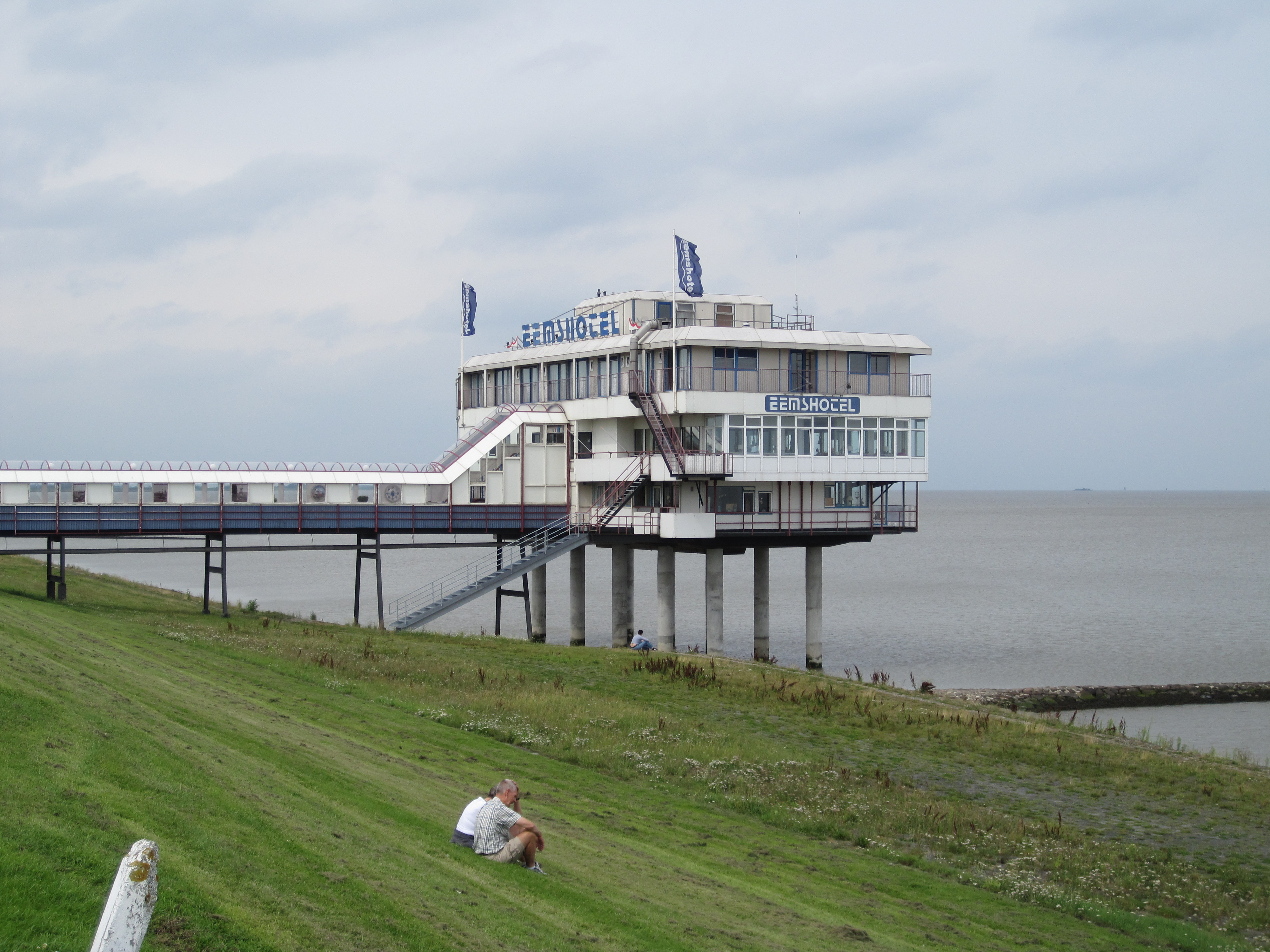 Eemshotel in Delfzijl